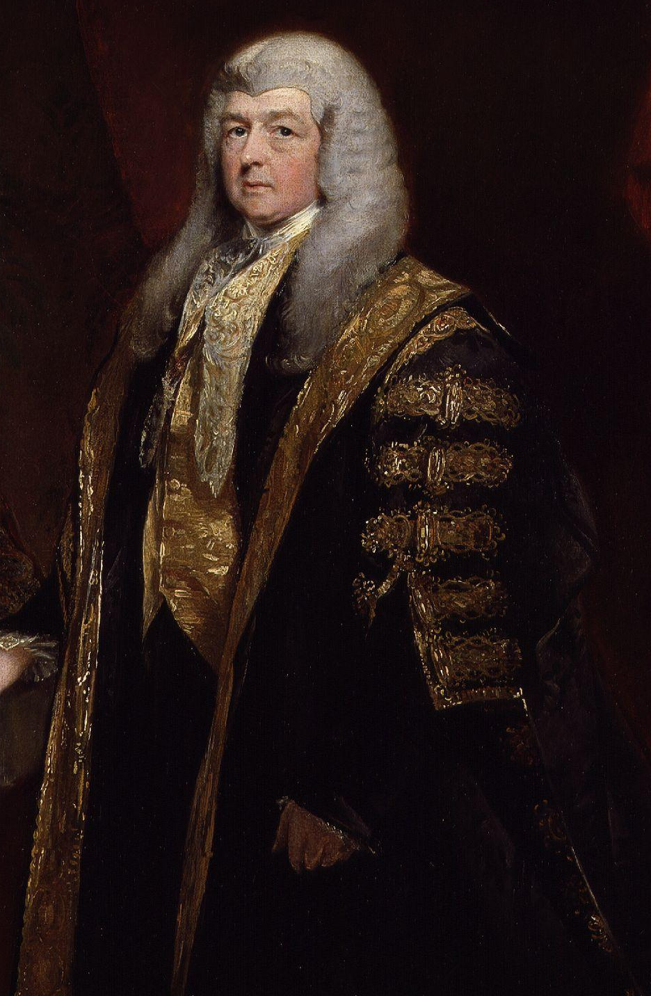 All images in this batch have been confirmed as author died before 1939 according to the official death date listed by the NPG.